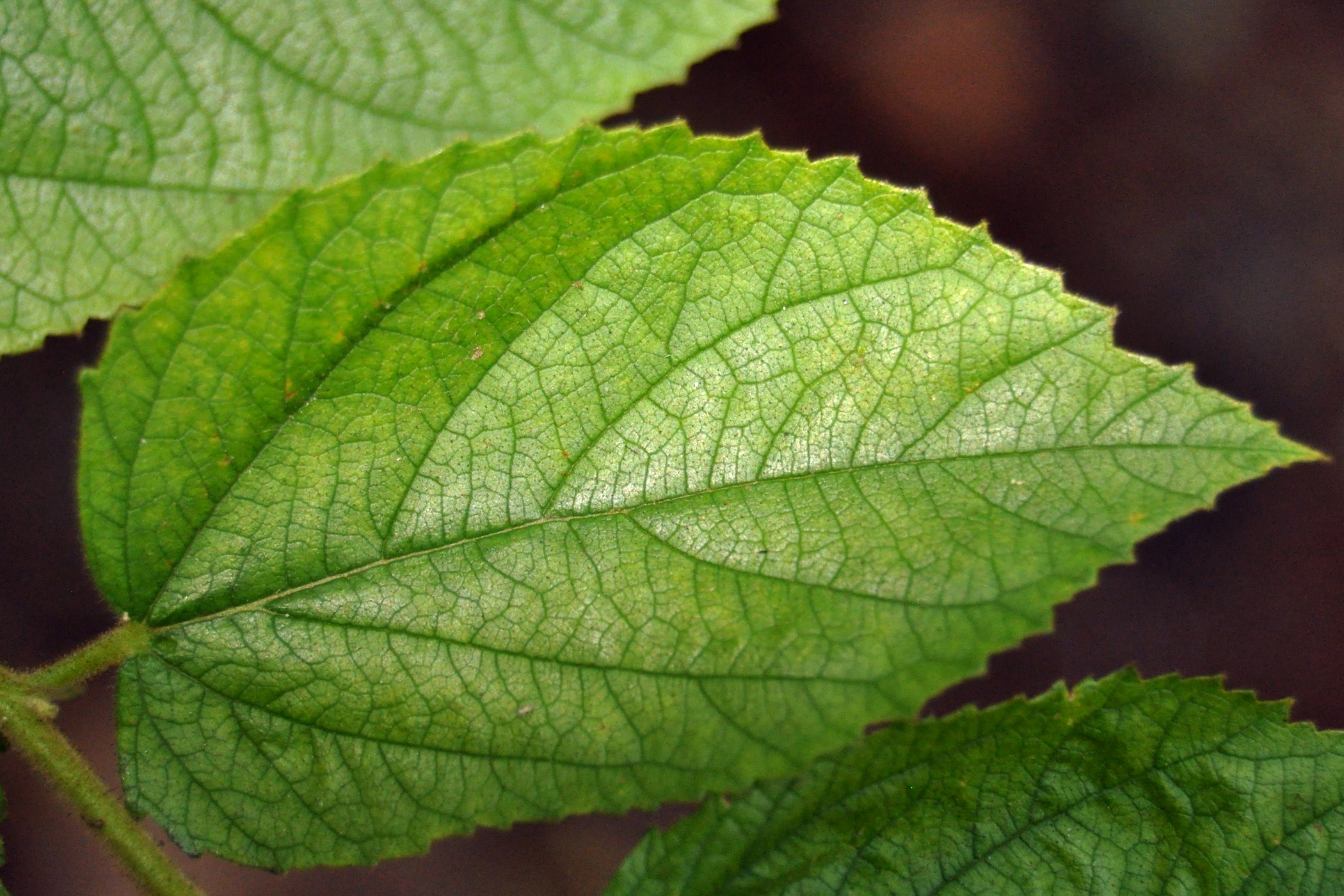 Leaves of Muntingia calabura; architecture type: imperfect-, marginal-, basal-actinodromous. Bogor, West Java, Indonesia.